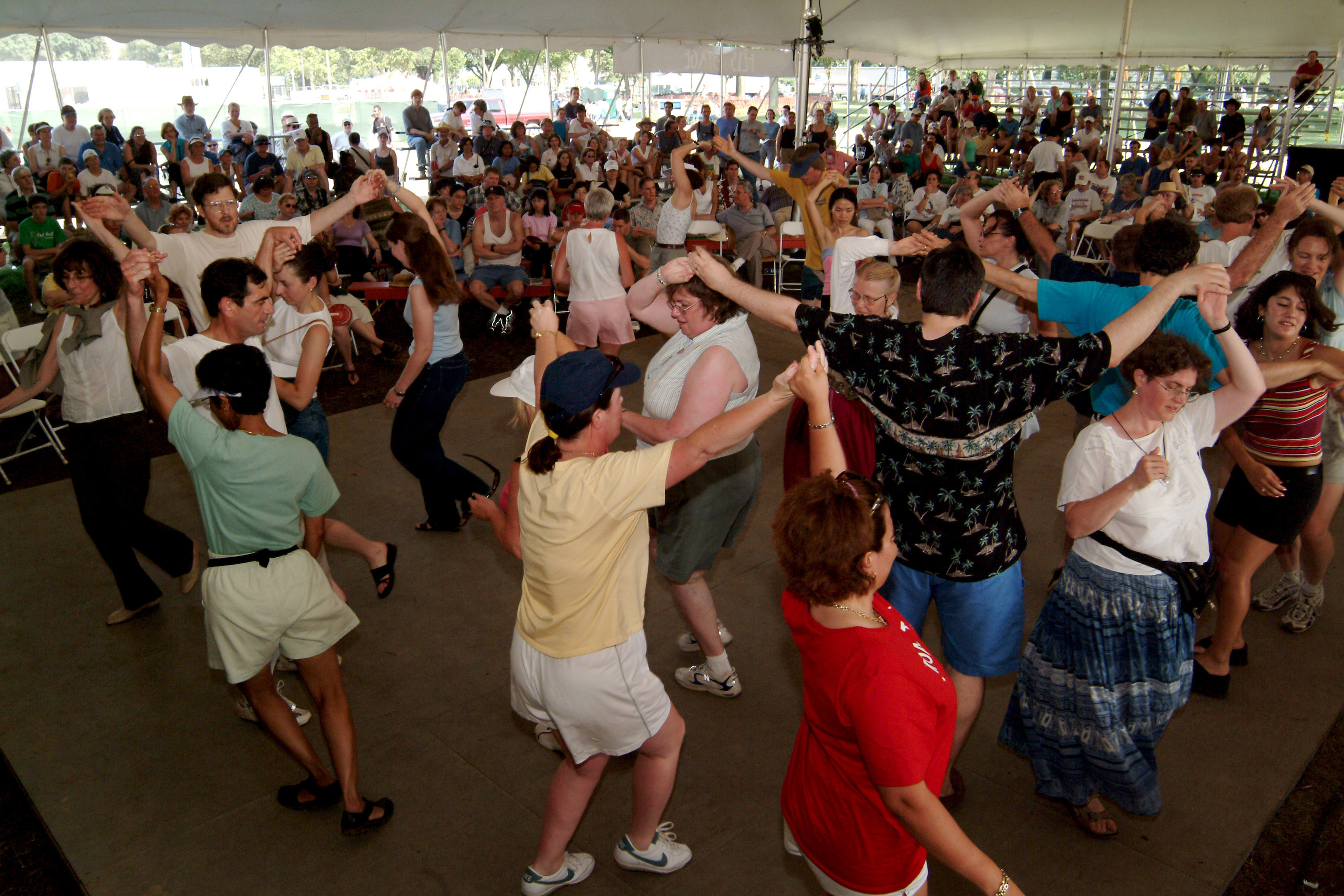 Description: Visitors try Scottish ceilidh dancing at the 2003 Smithsonian Folklife Festival on the National Mall. Creator/Photographer: Richard Strauss Medium: Digital photograph Culture: Scottish Geography: USA Date: 2003 Repository: Rinzler Folklife Archives and Collections Accession number: 2003-42781